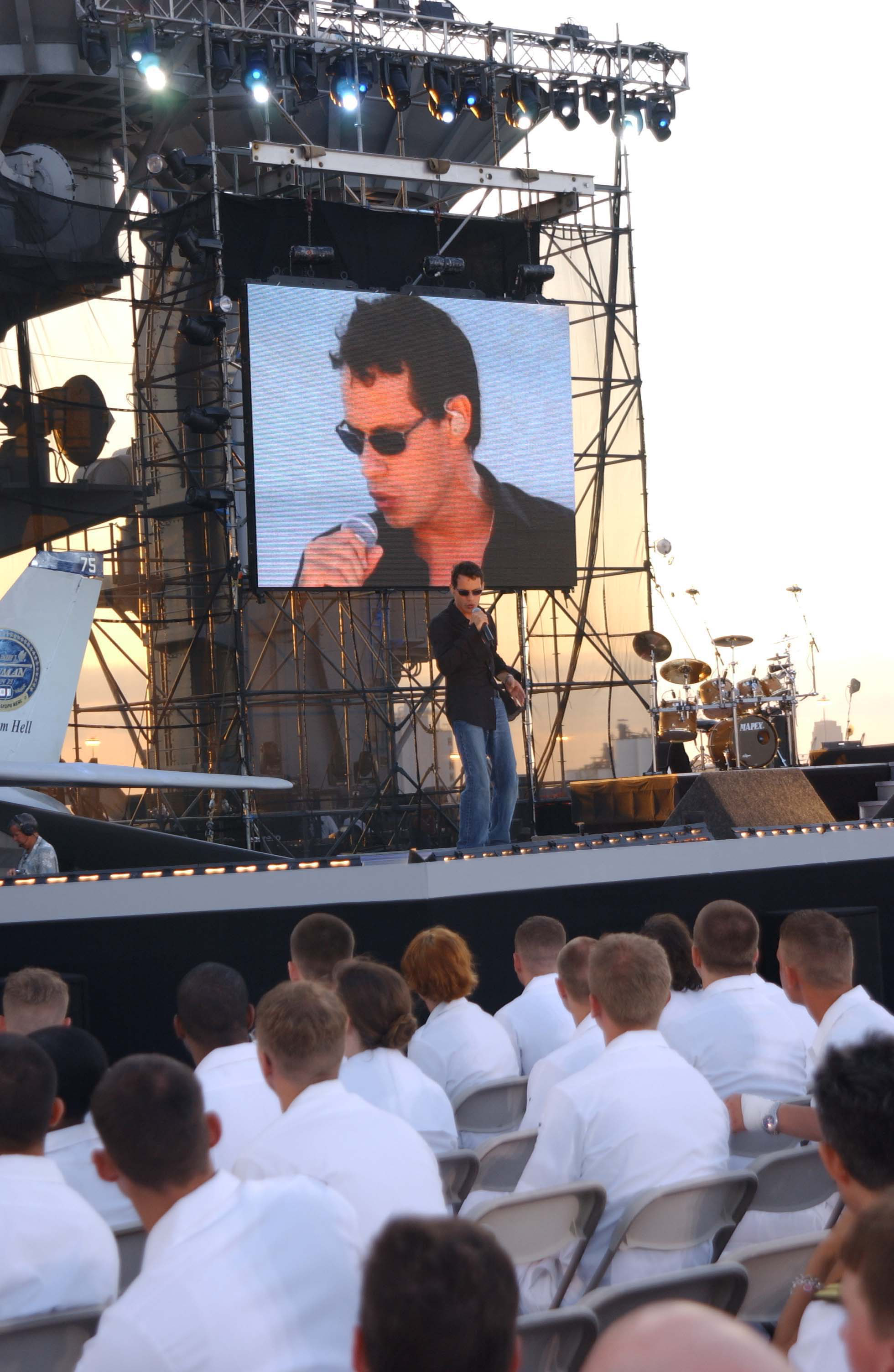 Marc Anthony, At sea aboard USS Harry S. Truman (CVN 75) May 1, 2002 -- Marc Anthony and his band practice a song during a concert dress rehearsal on the flight deck of USS Harry S. Truman. Truman is participating in the National Salute to the U.S Military during Fleet Week 2002 in Ft. Lauderdale, FL. U.S. Navy photo by Photographer's Mate 3rd Class Christopher B. Stoltz. (RELEASED)